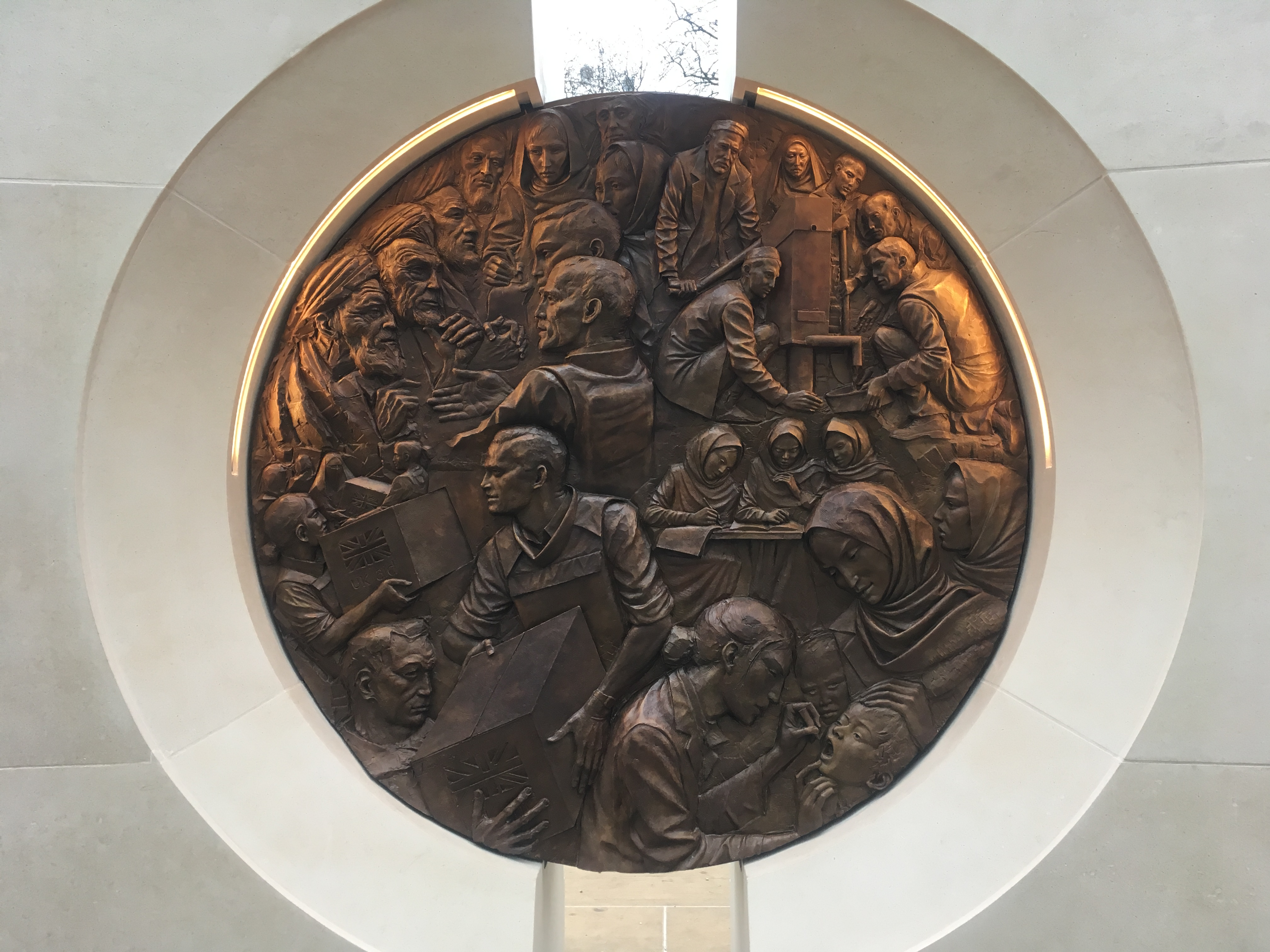 The Iraq and Afghanistan Memorial tondo (reverse).